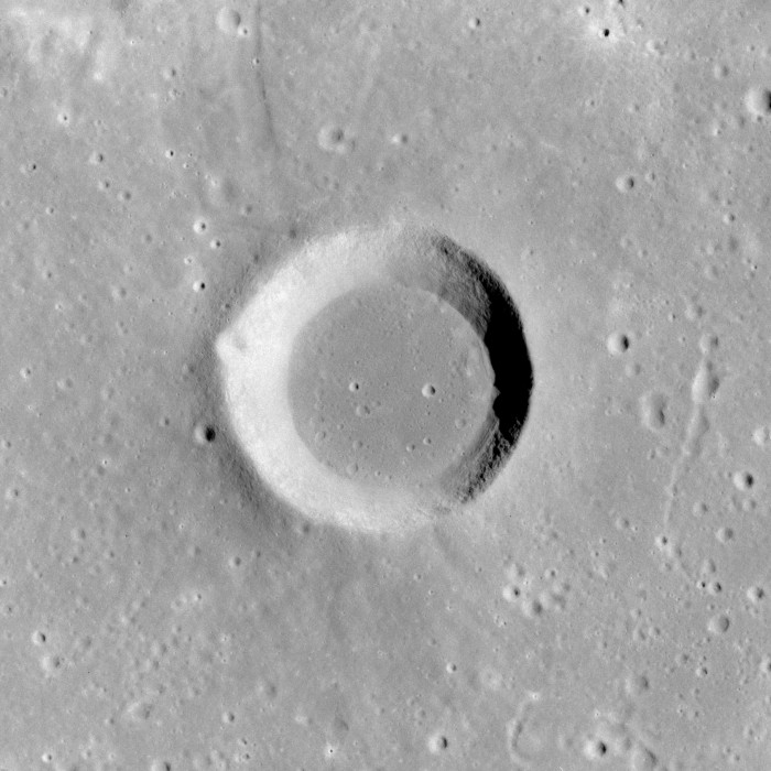 Tolansky, on the moon. Sun elevation 27 deg., spacecraft altitude 124 km.